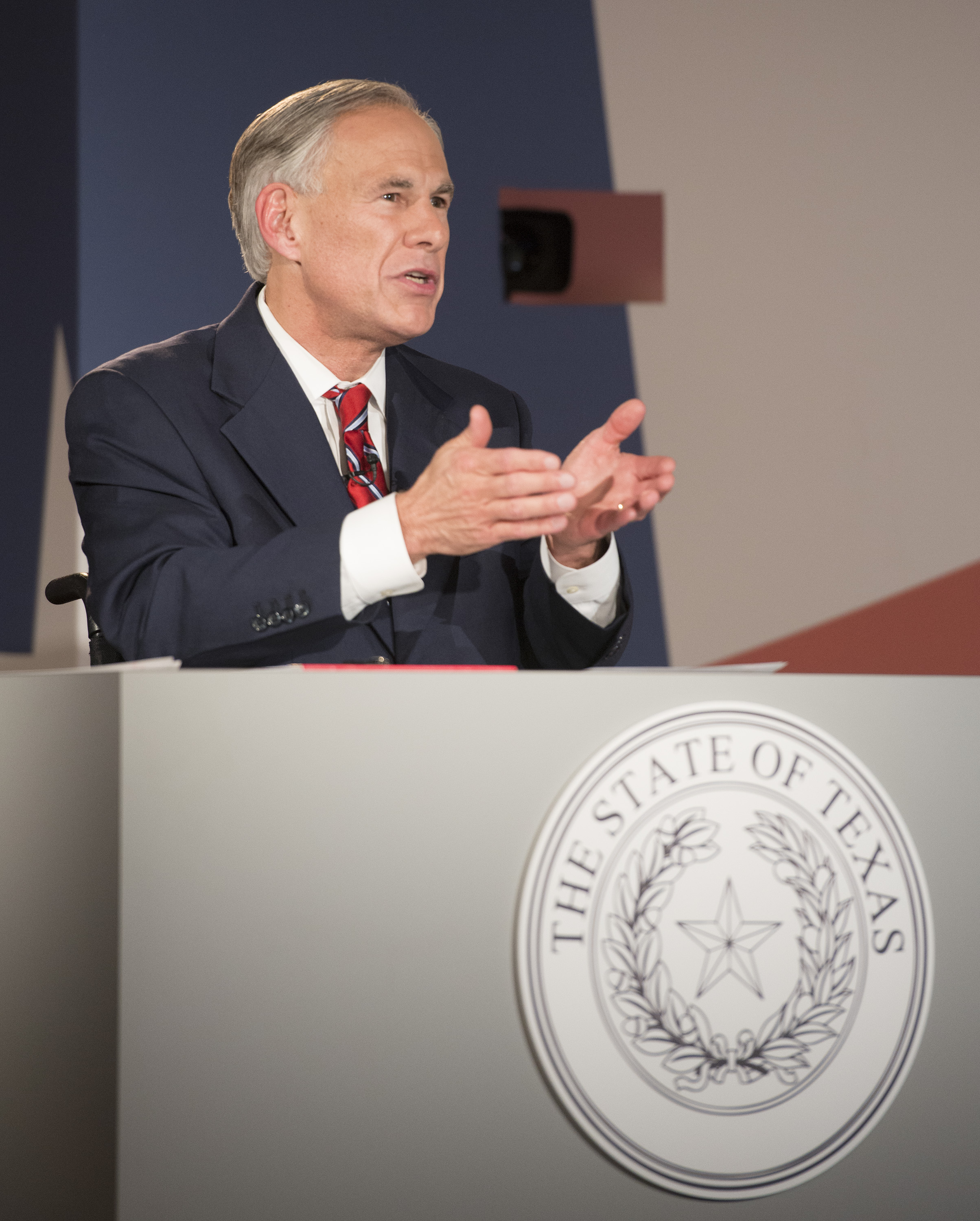 Texas Republican Gov. Greg Abbott speaks at the gubernatorial debate at the LBJ Presidential Library in Austin, Texas.